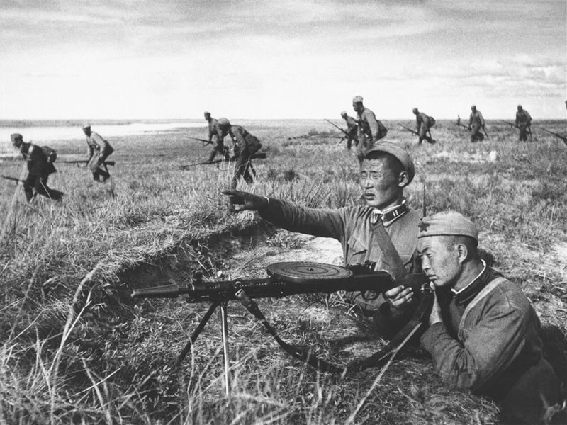 Mongolian People's Army soldiers fight against Imperial Japanese soldiers. Khalkhin Gol, 1939.